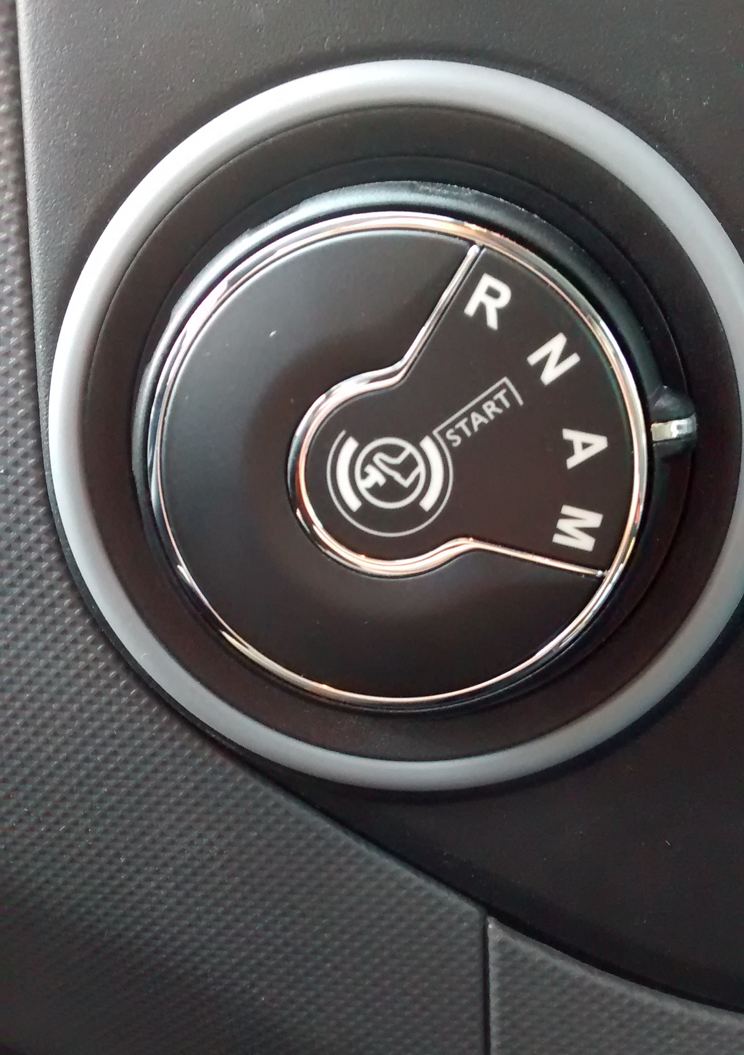 Gear sticks button PSA